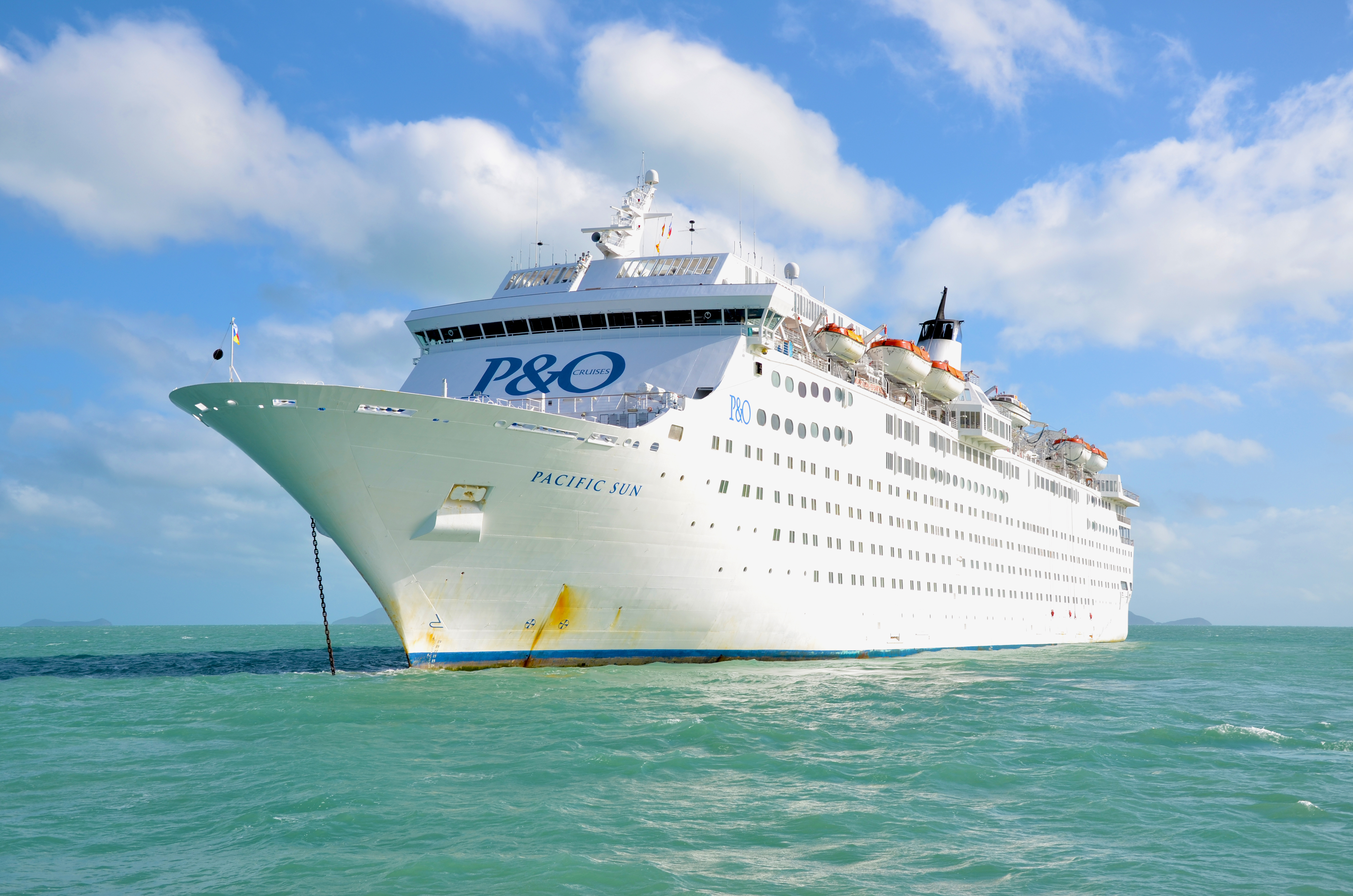 Here is the Pacific Sun anchored off Airlie Beach in the Whitsunday Islands in May 2011 on a North Queensland Cruise from Brisbane.